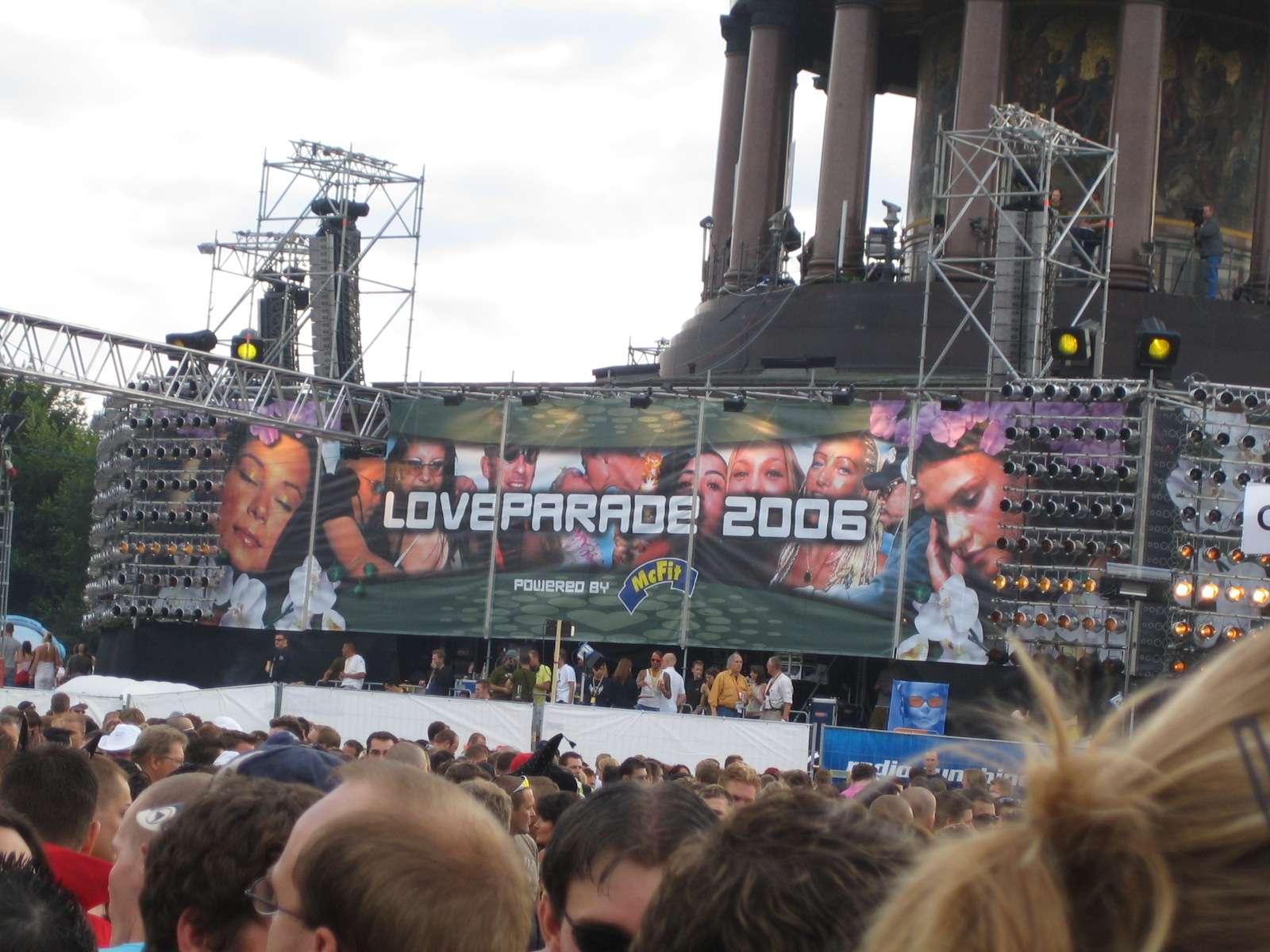 Love Parade 2006 in Berlin/Germany